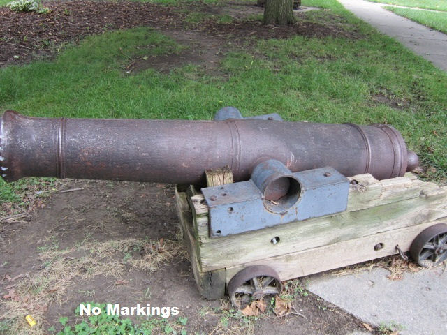 This is one of two unmarked cannon from either a foundry or maker that we can find to date. Circa 1830-40